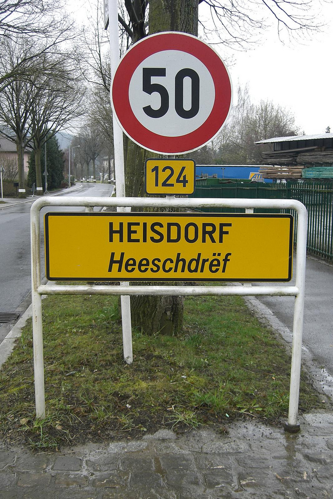 Town limit sign in Heisdorf, Luxembourg